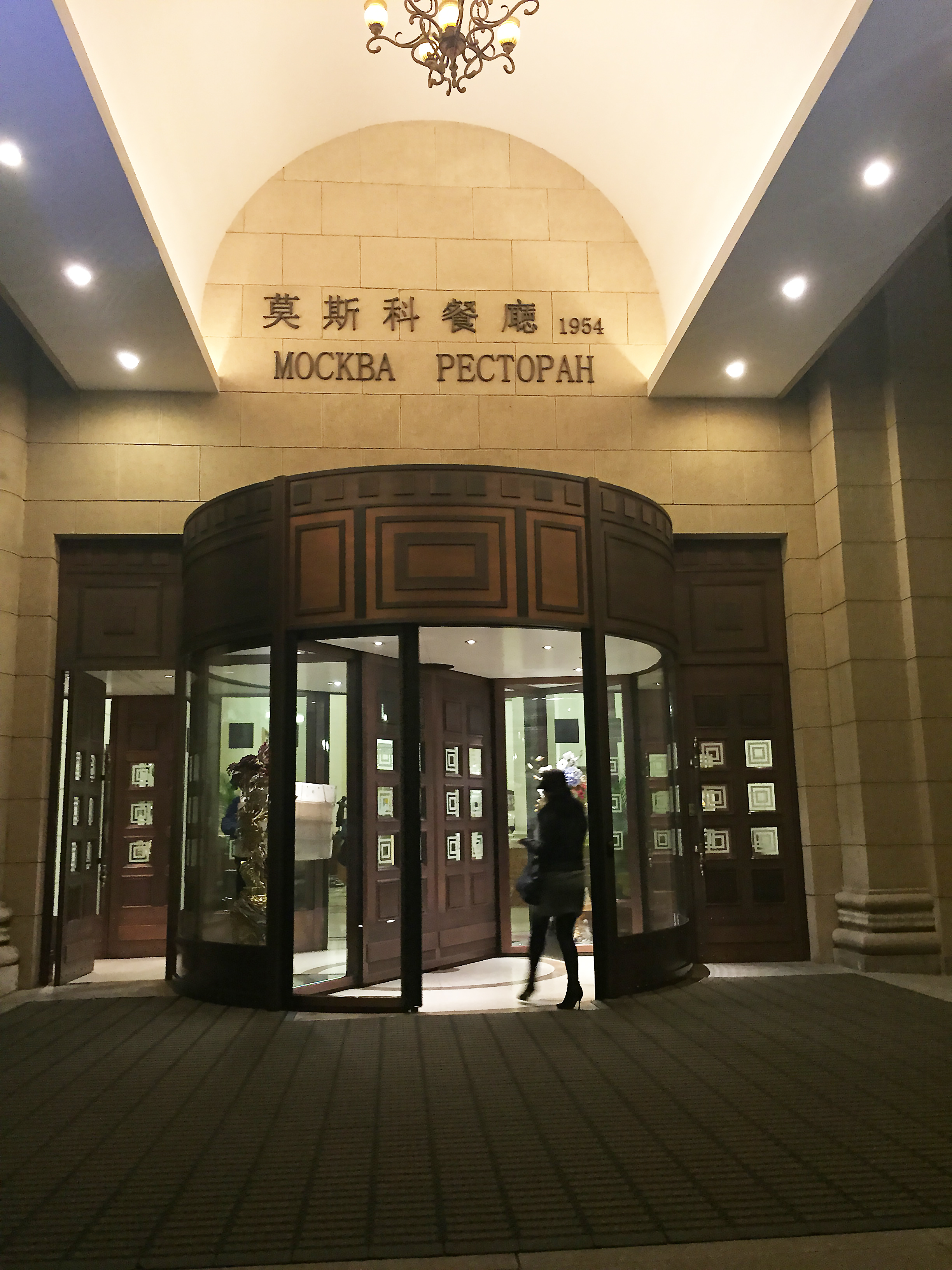 Where the dream begins... This restaurant is referred to people as "Laomo" (Mo for Moscow).